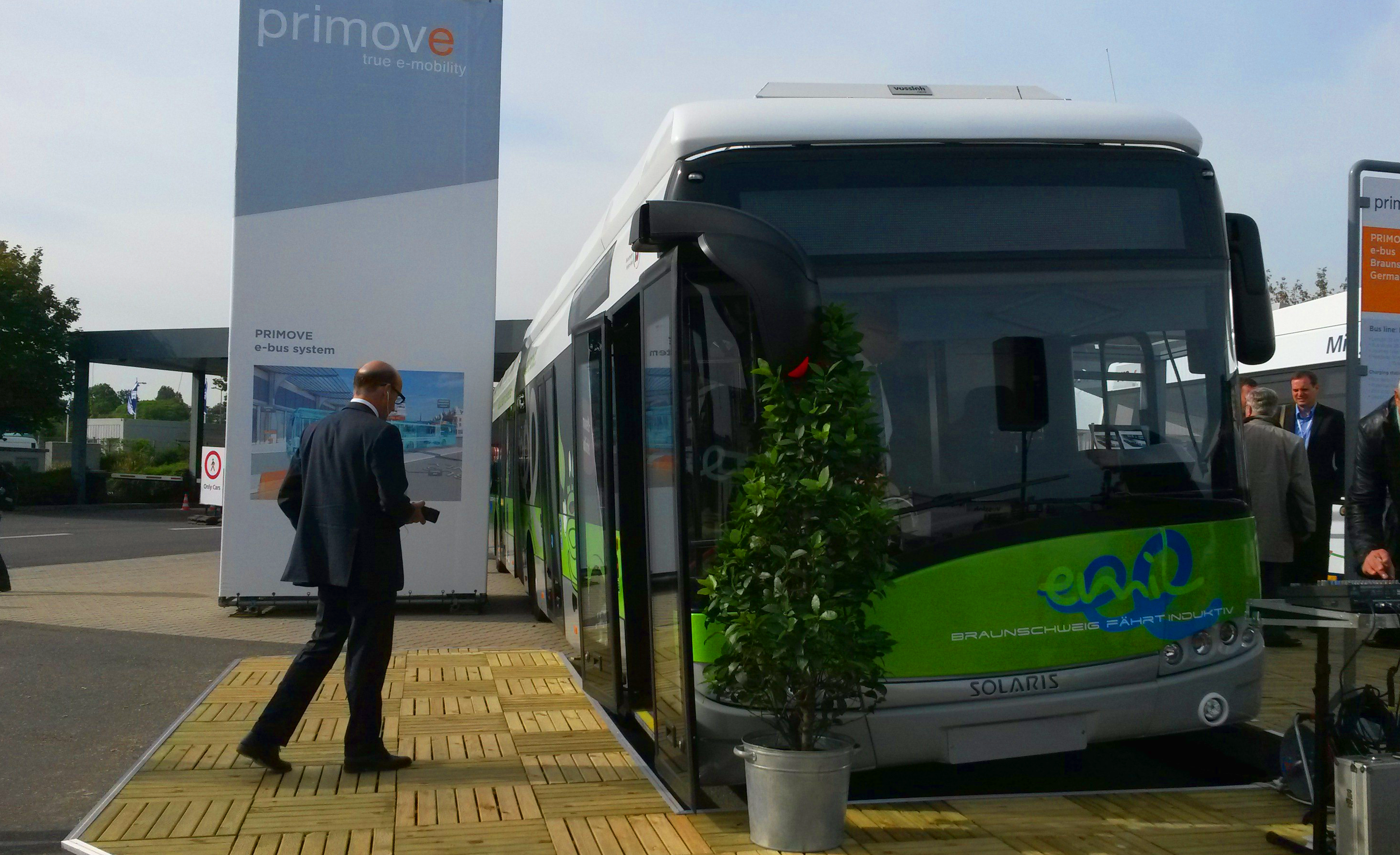 Bombardier Urbino 18 electric articulated bus for Braunschweiger Verkehrs-GmbH, presented by Bombardier Transportation at InnoTrans 2014 fair in Berlin.